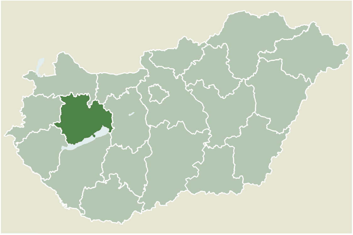 Location map for Veszprém county, Hungary.